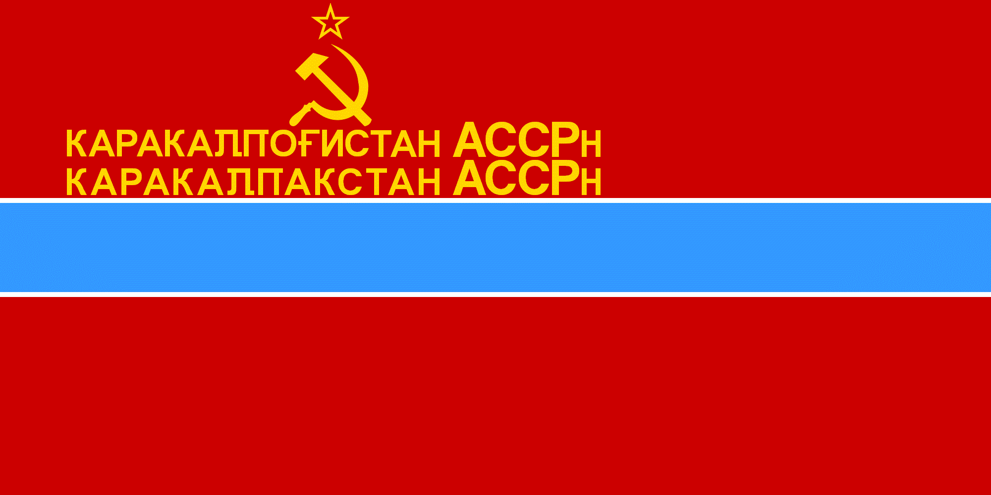 Flag of Karakalpak ASSR